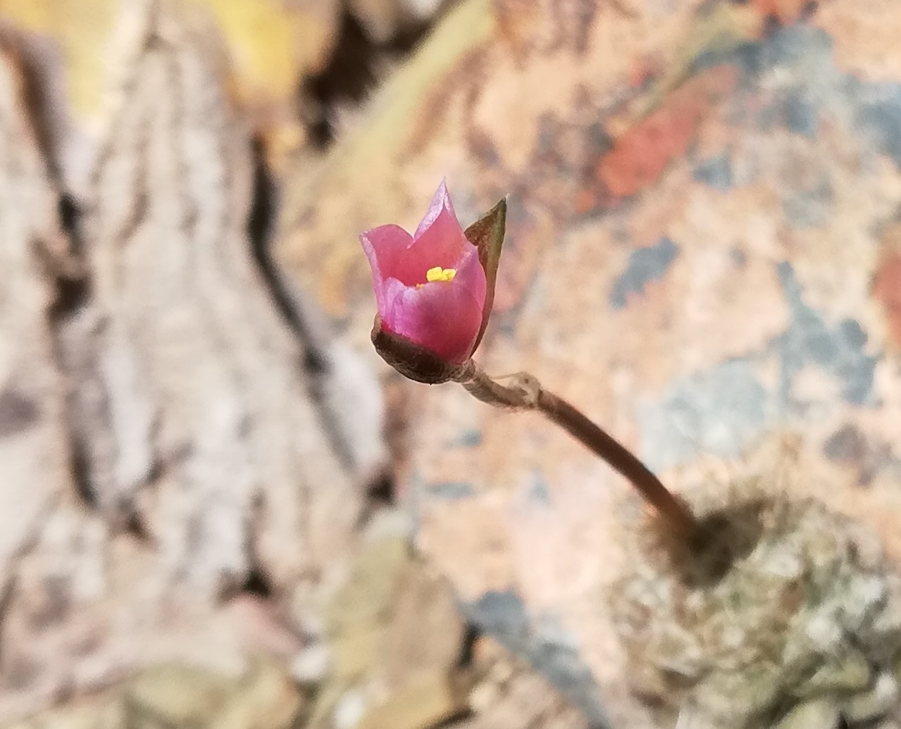 Anacampseros albidiflora (pink flowered form). Detail of a newly opening flower.